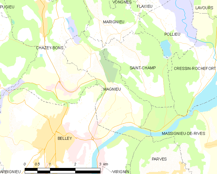 Map of French commune: Magnieu Map commune FR insee code 01227.png